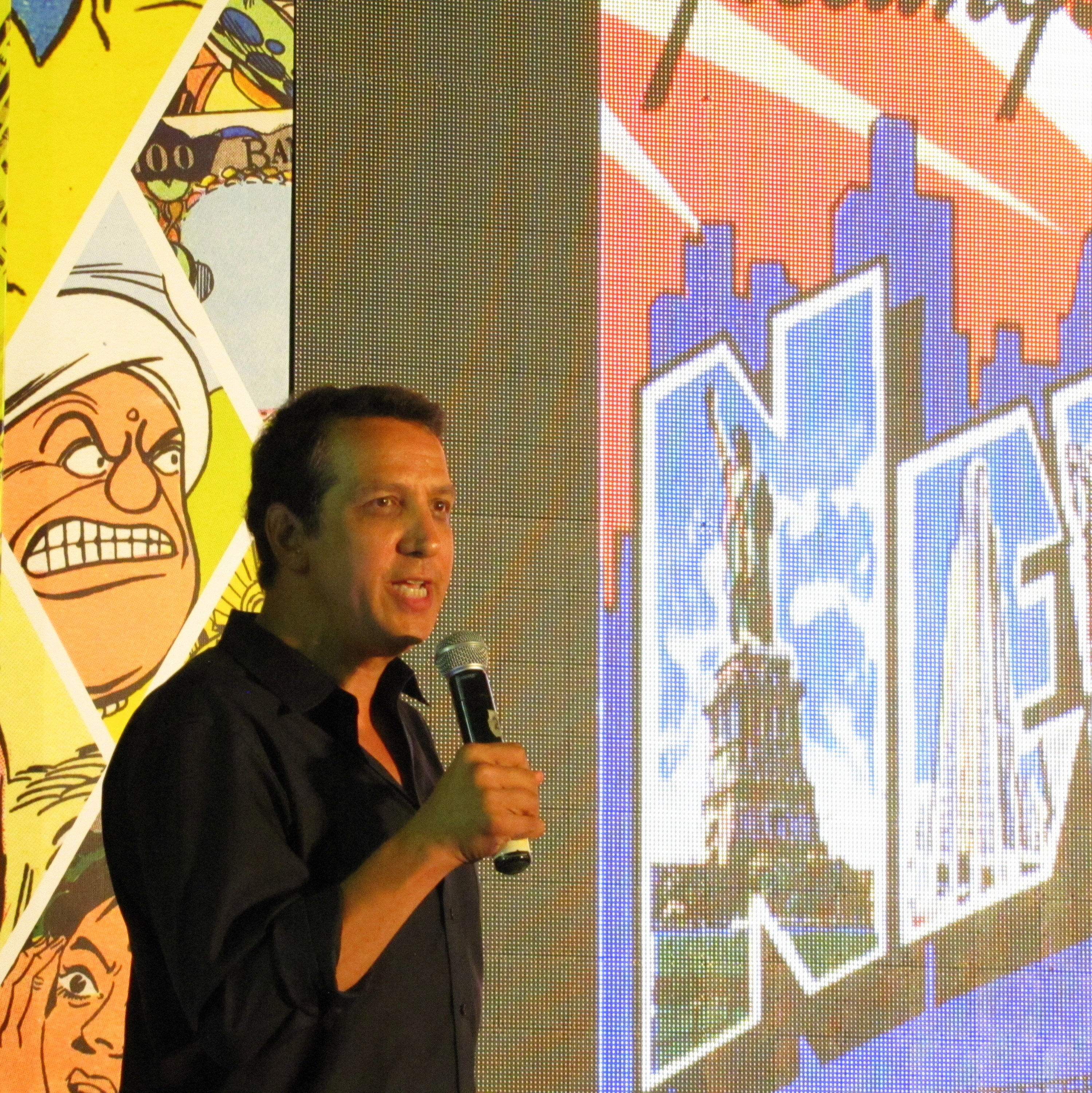 American Cartoonist Peter Kuper, Shot taken at Comic Con 2014 Bangalore, India.